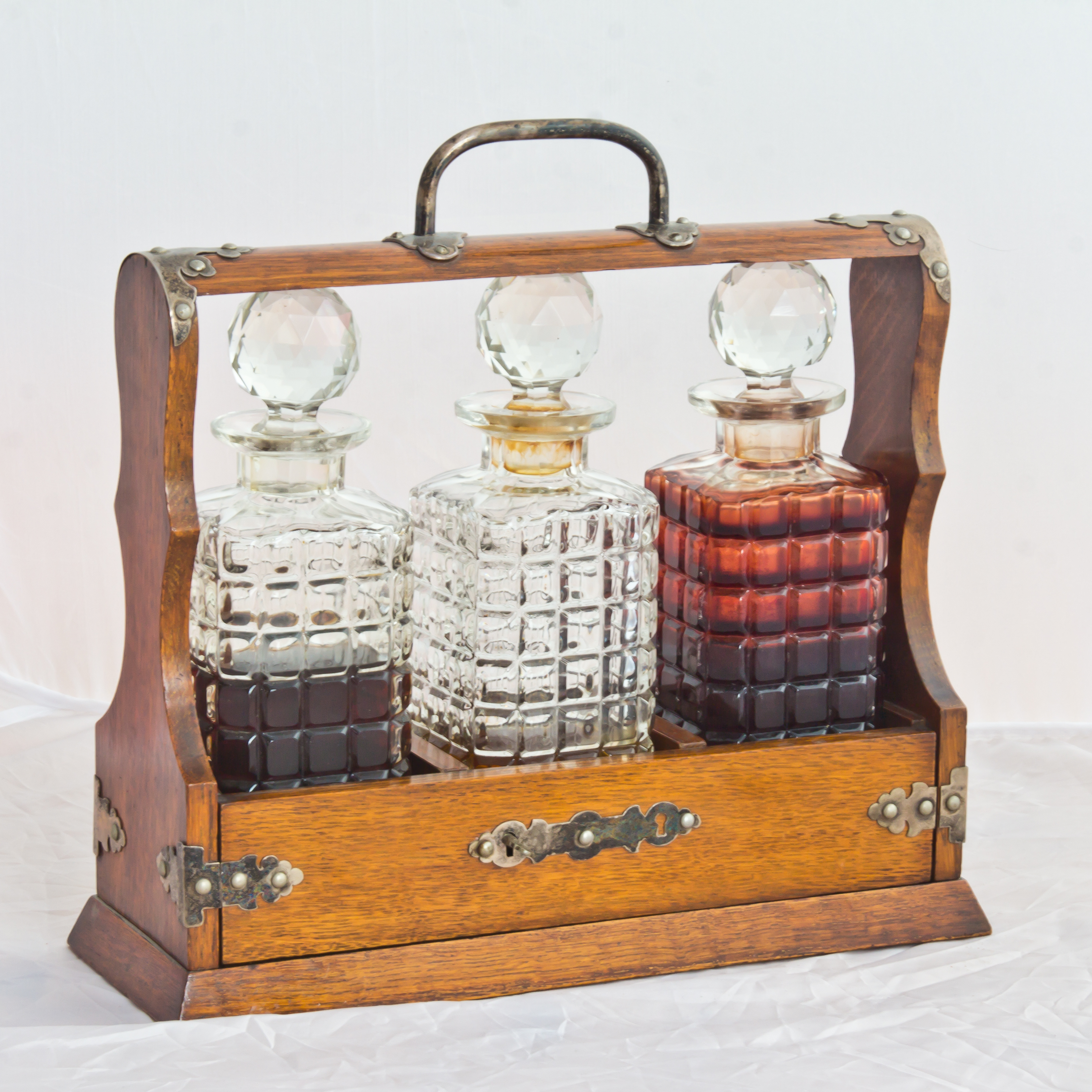 Tantalus with 3 bottles. The front is locked, therefore it is impossible to take the bottles from the tantalus.